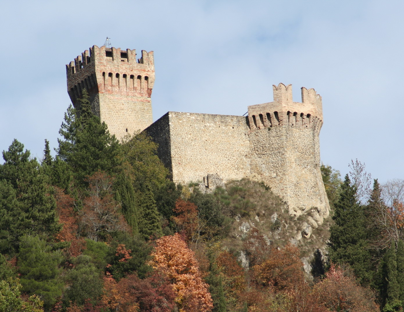 Castle ("Rocca") of Arquata del Tronto (province of Ascoli Piceno, Marche, Italy)